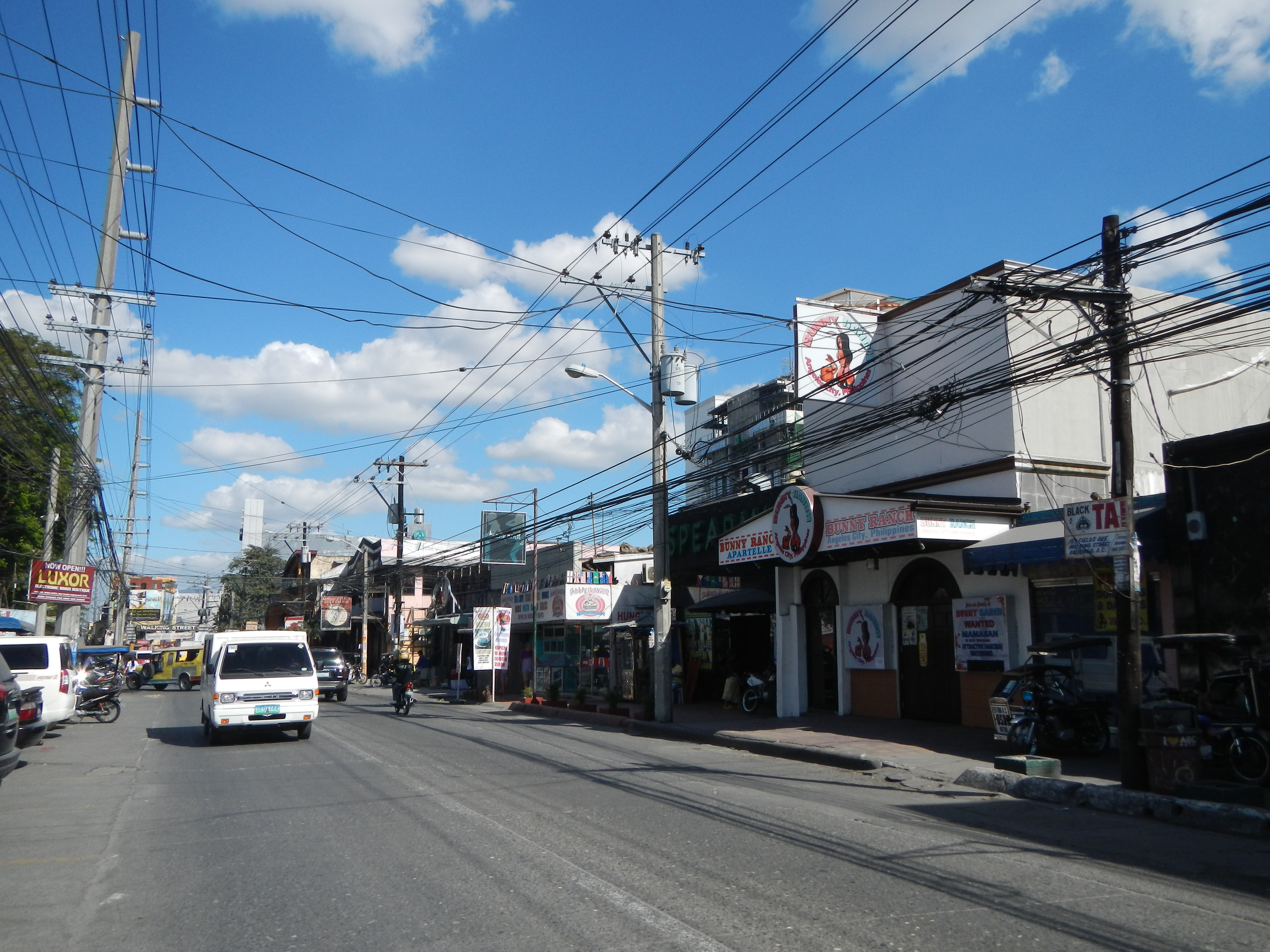 Upload Wizard photos (general description of the landmarks, angle by angle photography of the city, town, rivers, bridges and interesting points) of - a) Air Force City of -- the Clark Freeport Zone [1] which is a redevelopment of the former Clark Air Base, a former United States Air Force base in the Philippines. It is located on the northwest side of Angeles City [2] [3] and on the west side of Mabalacat City in the province of Pampanga located about 40 miles or 60 km northwest of Metro Manila; Clark Air Base and Freeport - Clark Air Base[4] and beside it is SM City Clark and in front is b) Upload Wizard photos Fields Avenue[5], Balibago[6], Angeles City, Pampanga, now named Walking Street. Originally the name referred to the Clark Air Base and was "Clark Field Avenue". The name evolved to become Fields Avenue - Fields Avenue, "Walking Street", Balibago, Angeles City, Philippines.